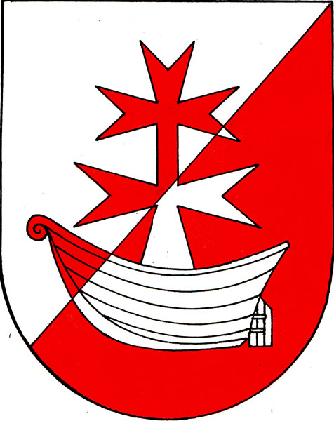 Municipal coat of arms of Šestajovice village, Prague-East District, Czech Republic.